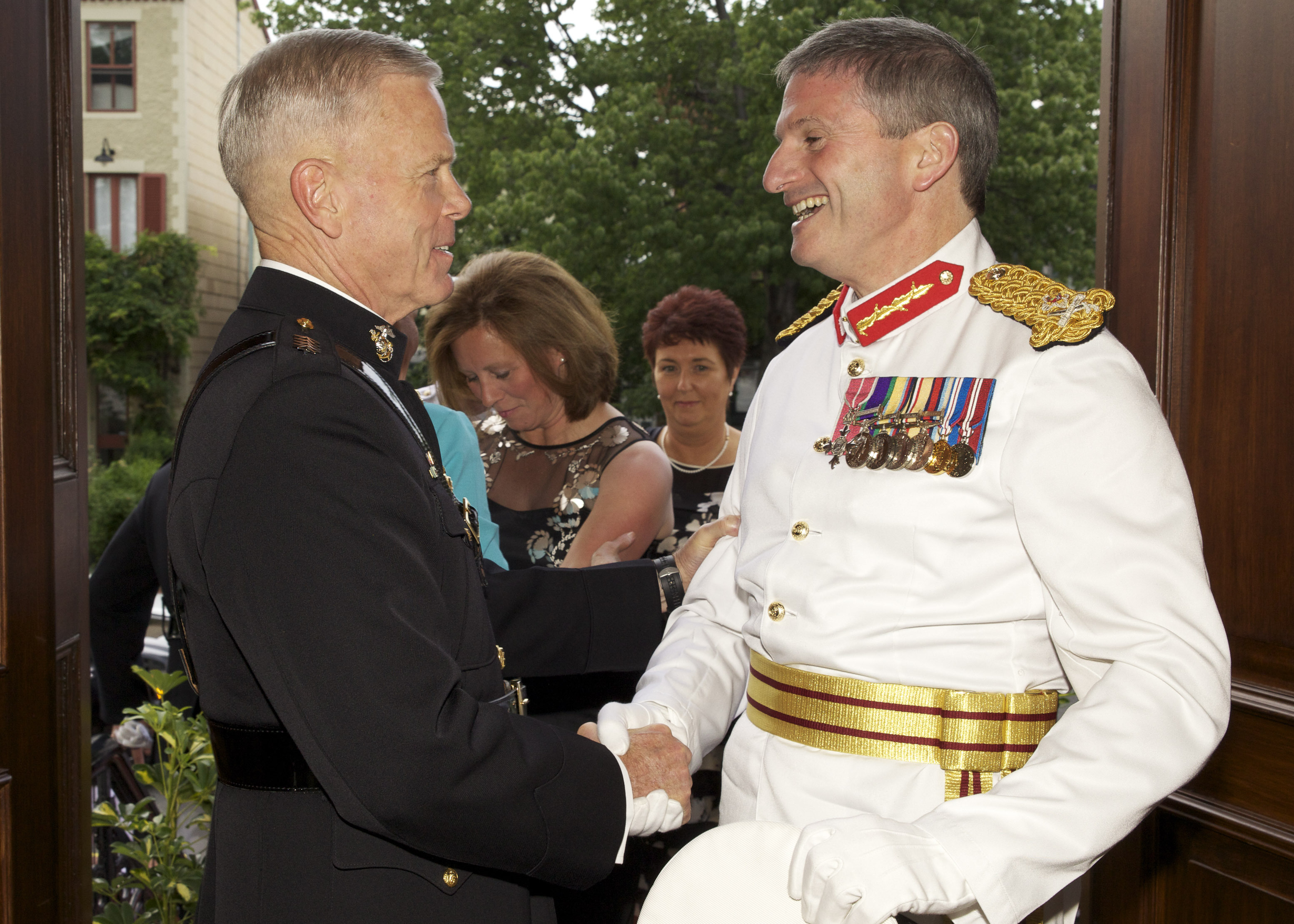 The Commandant of the U.S. Marine Corps, Gen. James F. Amos, left, speaks with the Evening Parade guest of honor, Commandant General of the British Royal Marines Maj. Gen. Martin Smith, during the parade reception at the Home of the Commandants in Washington, D.C., July 18, 2014. Maj. Gen. Smith is on his first trip to the United States since assuming the role of commandant of the British Royal Marines. (U.S. Marine Corps photo by Sgt. Mallory Vanderschans/Released)